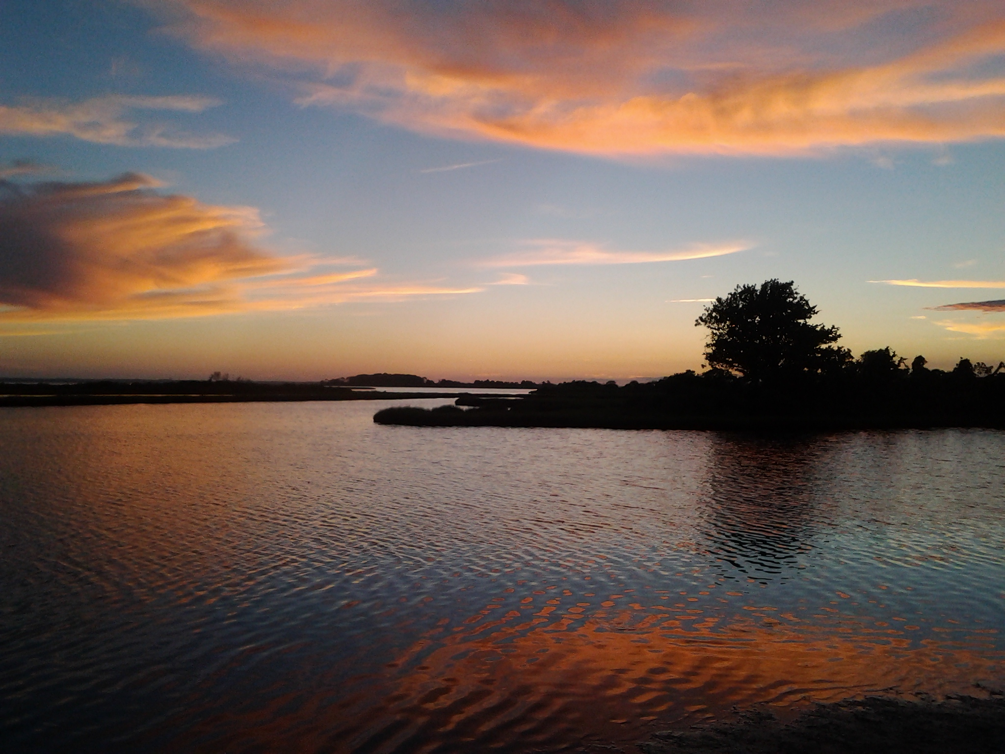 Taken while kayaking at Assateague National Park in MD. Photo by: John Angermeier angermeier1